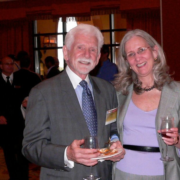 Martin (Marty) Cooper, Arlene Harris and another My innovation mentors and dear friends--by far the most innovative and authentic consumer advocates I know of. Marty Cooper conceived of the mobile handset while director of R&D @ Motorola. His partner in crime, the singular Arlene Harris is the 1st woman inductee of the wireless hall of fame. Both are serial entrepreneurs with multiple successes together and in their own right under their belts.